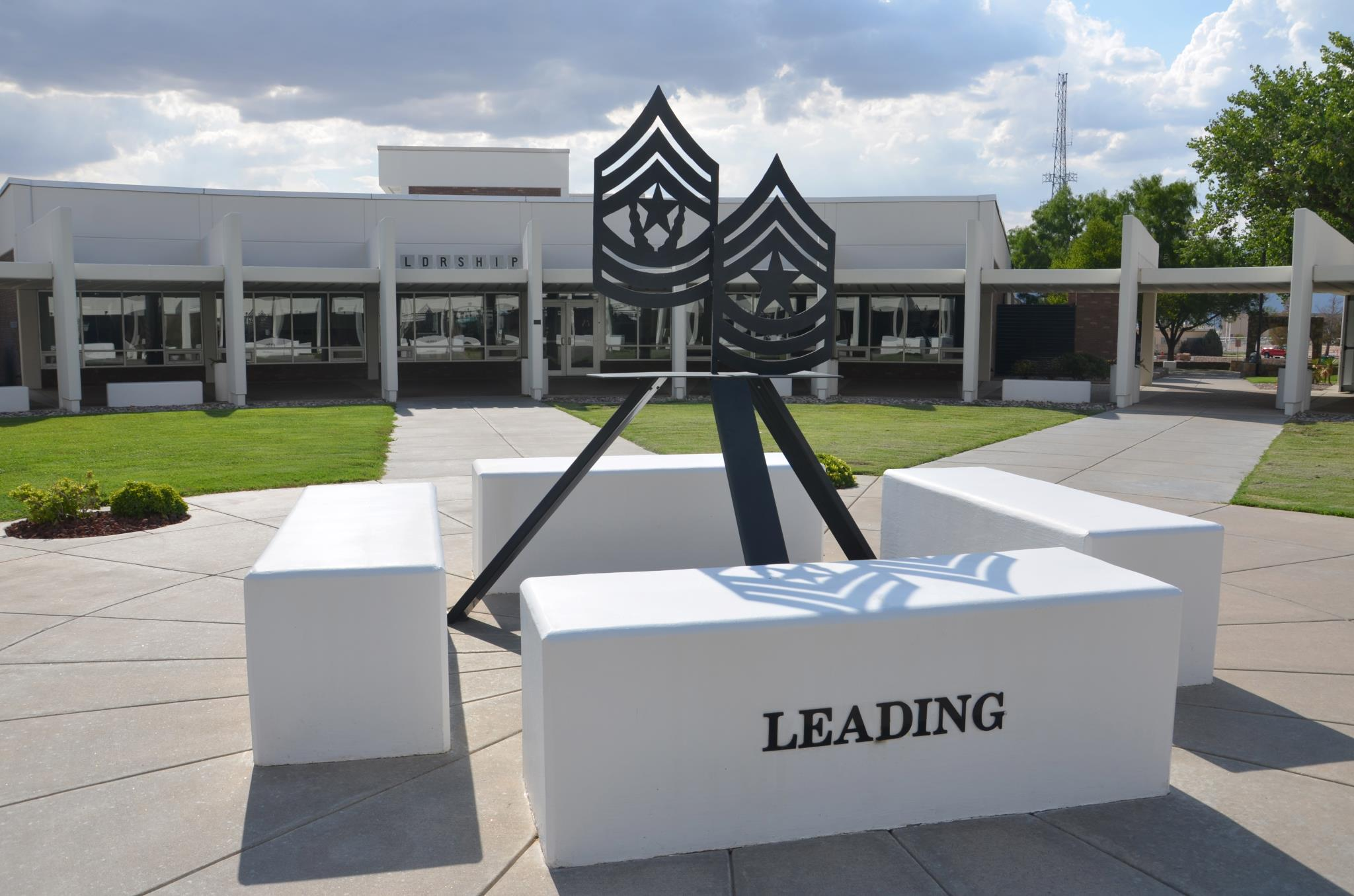 United States Army Sergeants Major Academy center quad artwork